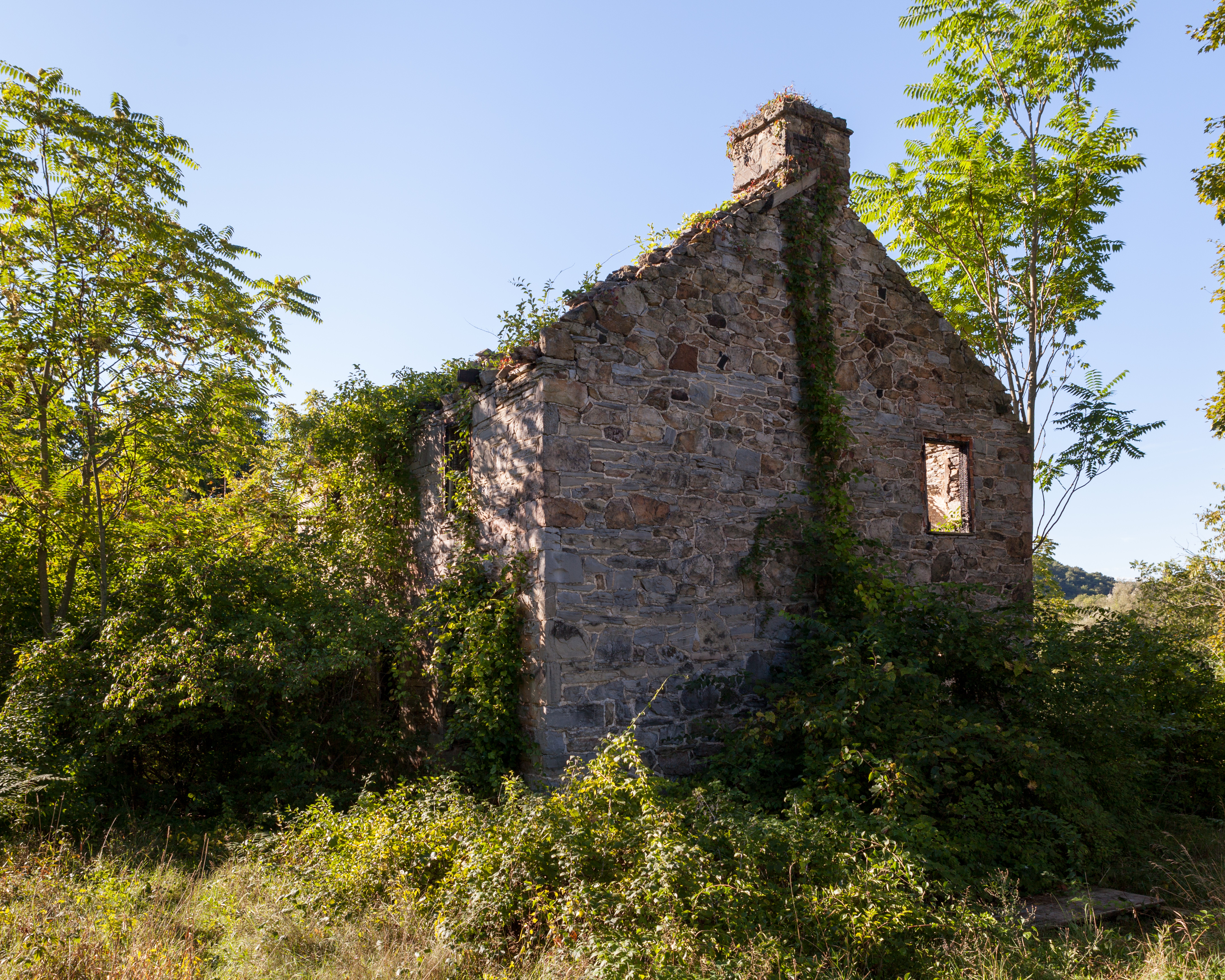 Ruins of the Brumbaugh Homestead, looking at the north and east sides.